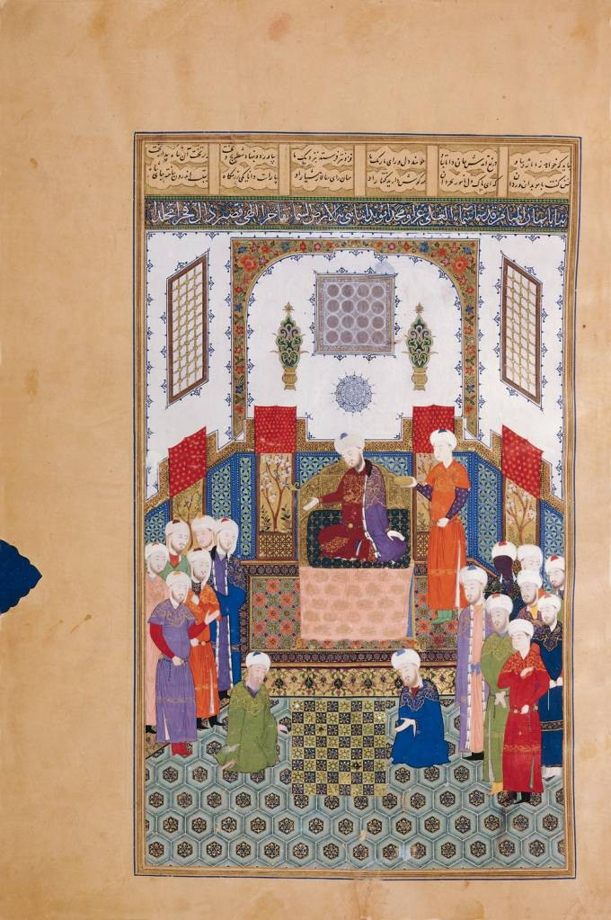 Bozorgmehr, King Anushirvan's grand vizier, who has discovered the rules of the game, challenges the Indian envoy to a game of chess. From the “Bayasanghori Shâhnâmeh” — made in 1430 for Prince Bayasanghor (1399-1433), the grandson of the legendary Central Asian leader Timur (1336-1405).